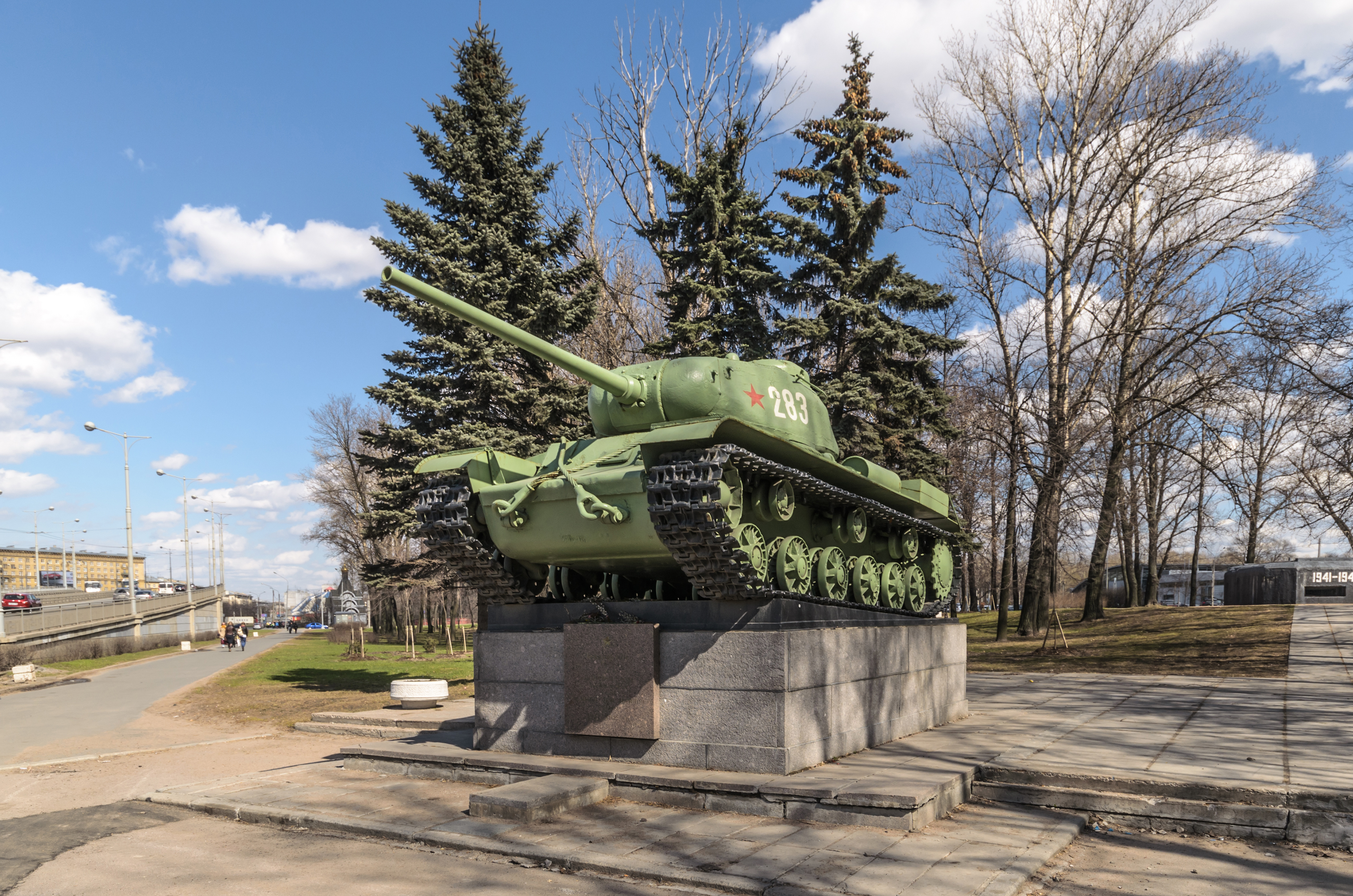 "Tank The Victor" Monument on Stachek avenue in Saint Petersburg